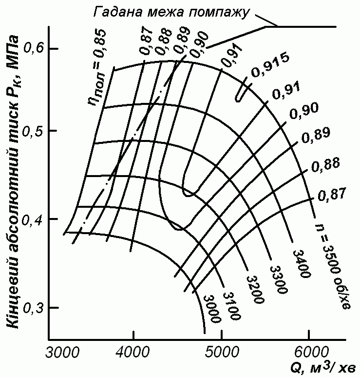 Characteristics of the turboblower machine of the К-5500-41-1 type.